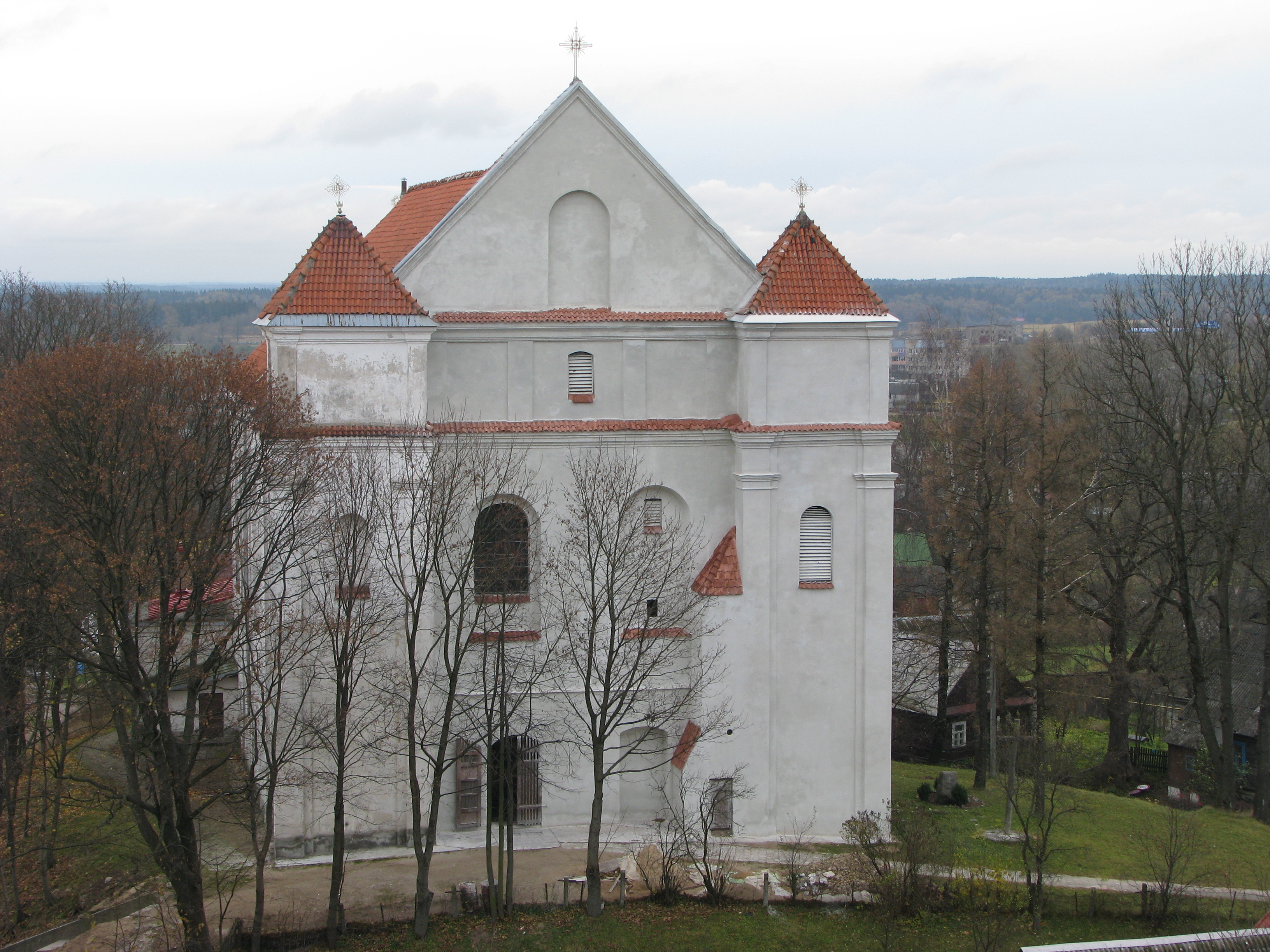 Novogrudok (Belarus), Parish Church of the Transfiguration, an architectural monument of the era of the XIV century